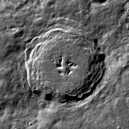 Hayn lunar crater - LROC image